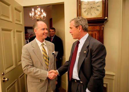 Congressman Robert Aderholt met with President George W. Bush in the Oval Office on July 19, 2005 to express his concerns with CAFTA.